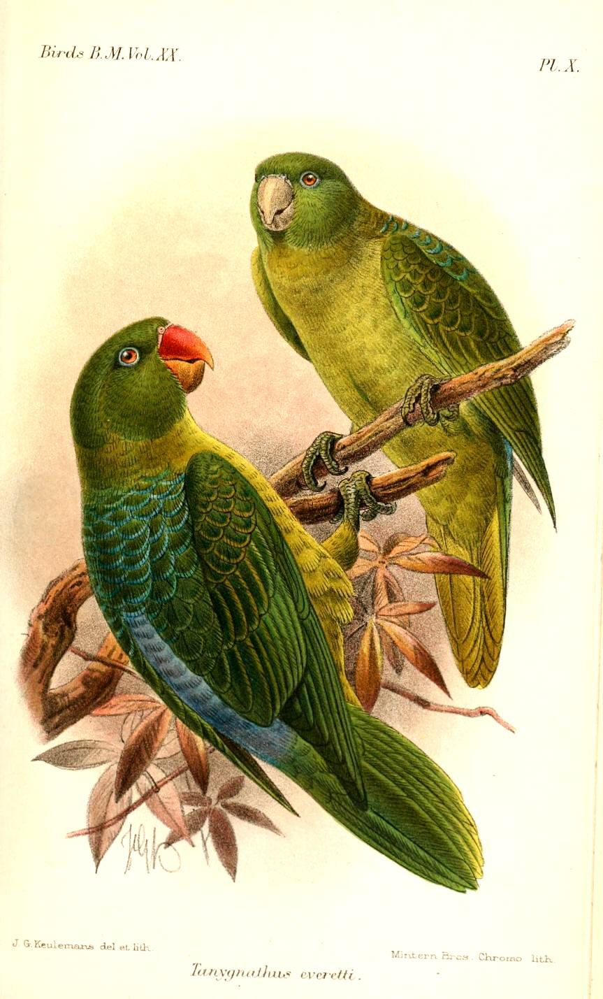 Tanygnathus everetti = Tanygnathus sumatranus everetti, Blue-backed Parrot ssp.